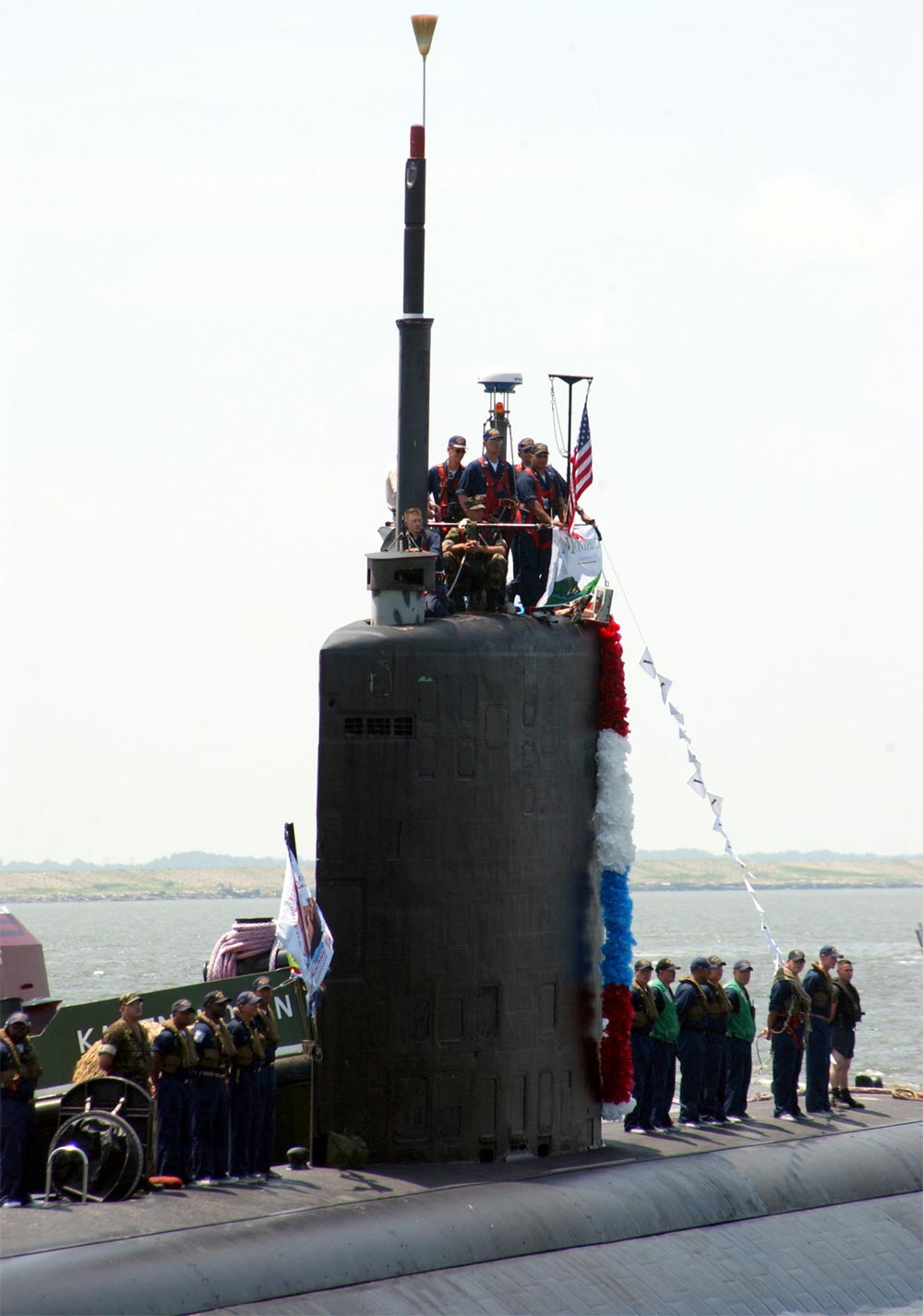 030710-N-0000C-003 Naval Station Norfolk, Virginia (en:10 July, en:2003) -- Sailors aboard the fast-attack submarine USS Montpelier (SSN-765) prepare to moor at Naval Station Norfolk. Montpelier is the last Norfolk-based submarine to return home from deployment in support of Operation Iraqi Freedom. U.S. Navy photo. (RELEASED)